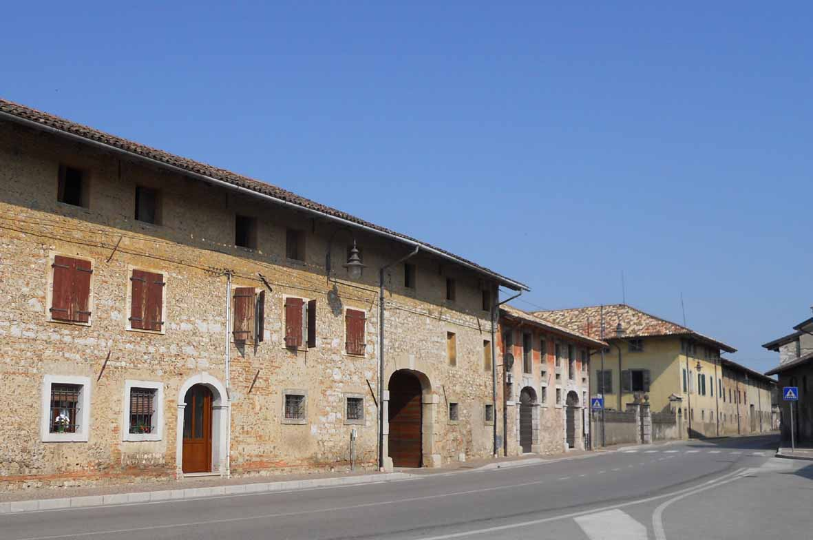 Mereto_di_Capitolo,_casa_Boga_e_villa_Morelli_de_Rossi